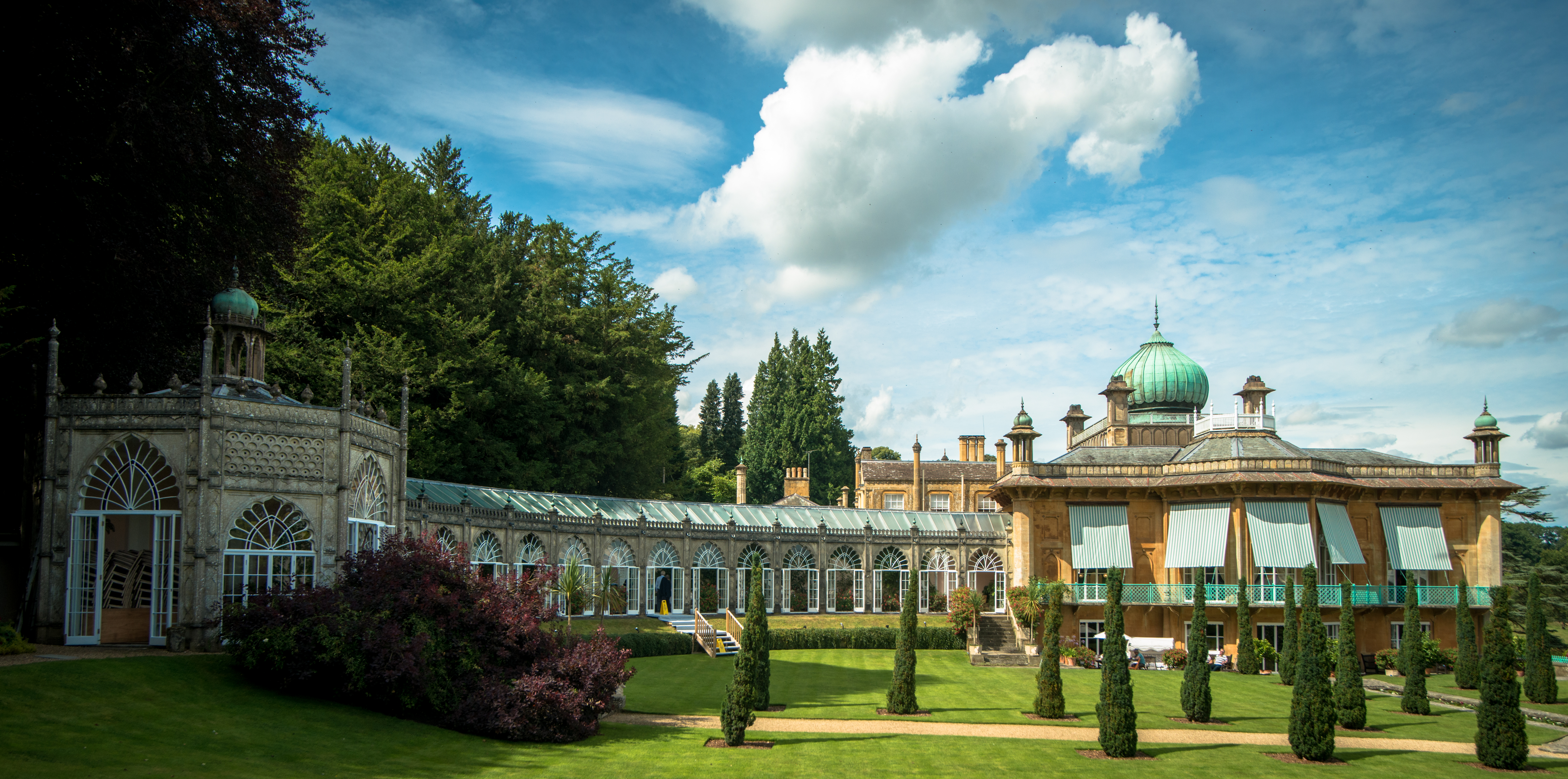 Sezincote House, Gloucestershire